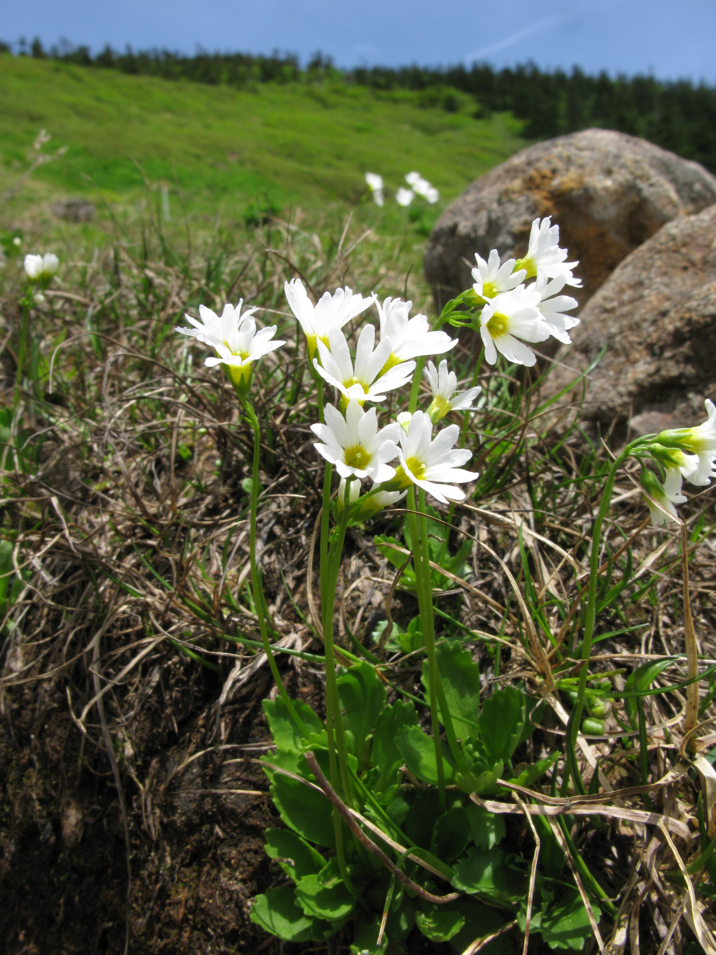 Primula nipponica, Mt. Nishiazuma-yama, Fukushima pref., Japan